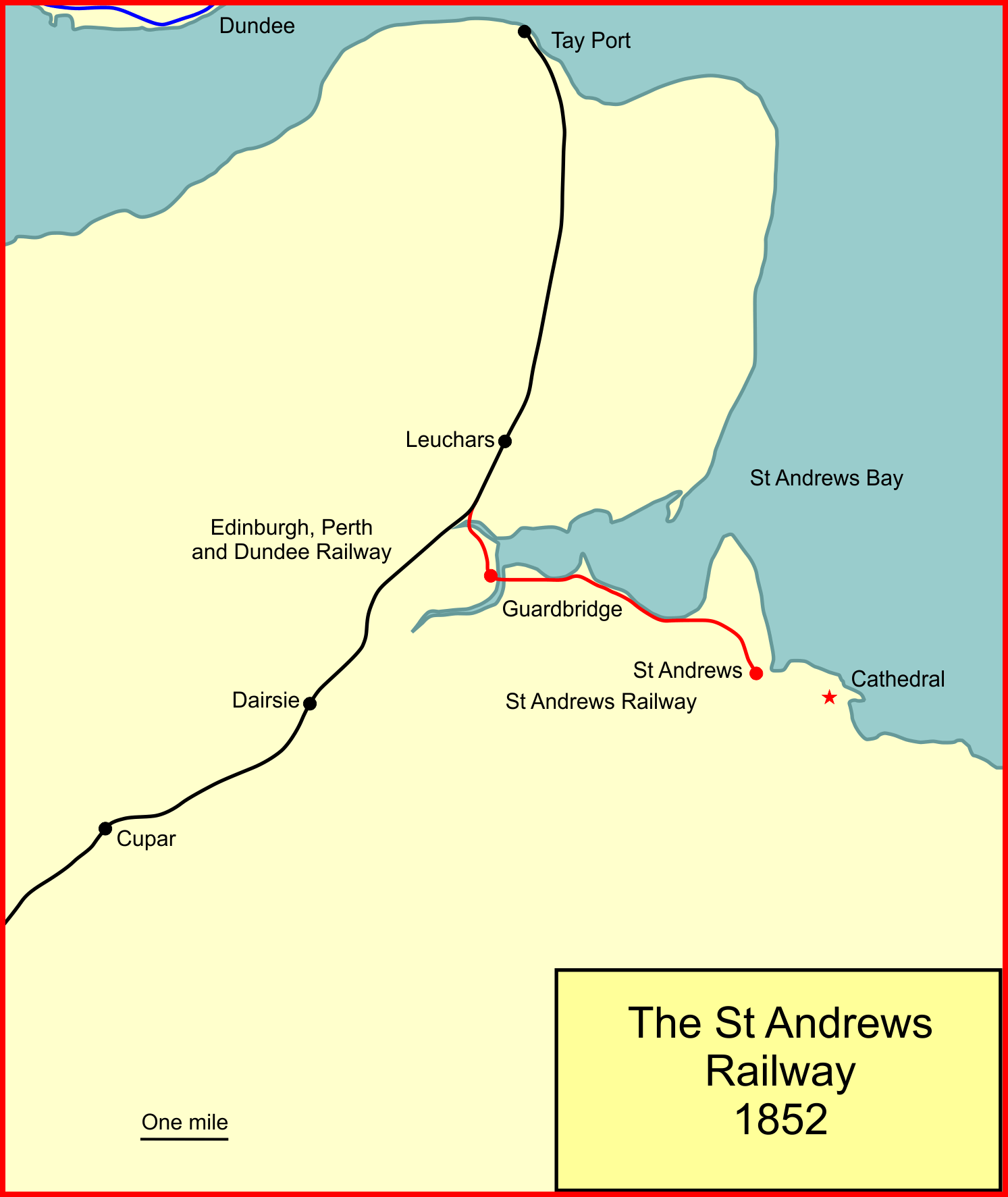 System map of the St Andrews Railway, Scotland, 1852